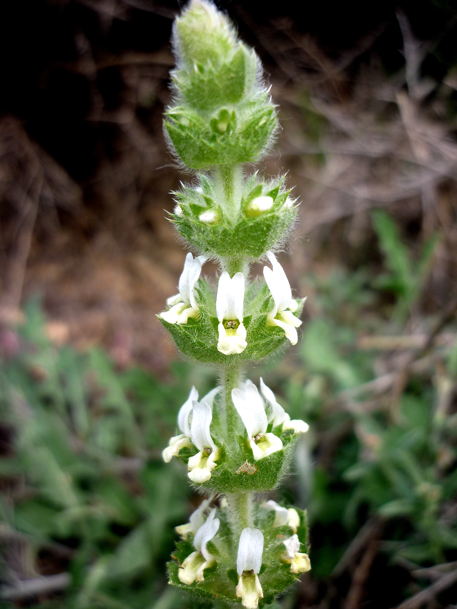 Sideritis hirsuta. In Torà (Segarra-Catalunya). To 590 m. altitude